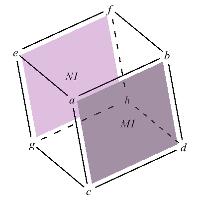 Bhargava cube showing the pair of opposite faces corresponding to M1 and N2.